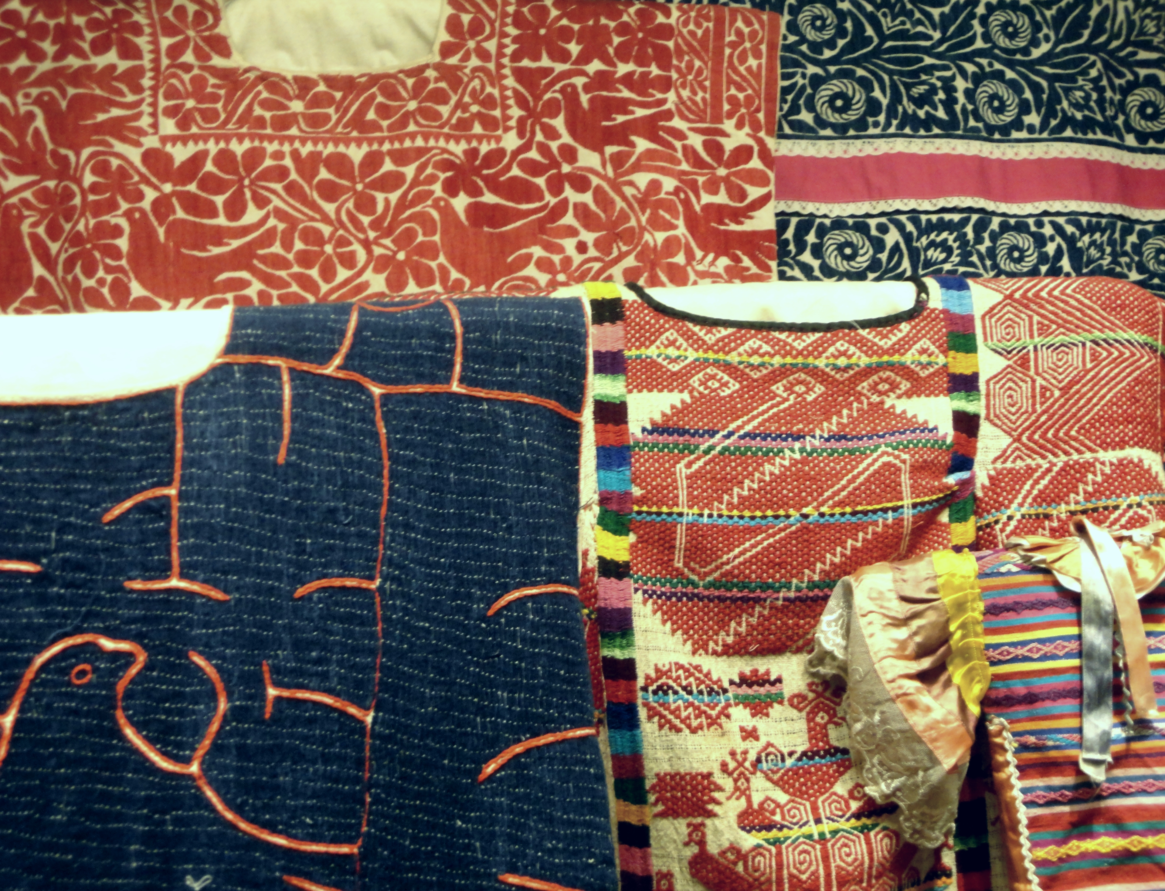 Textile arts of Mexico